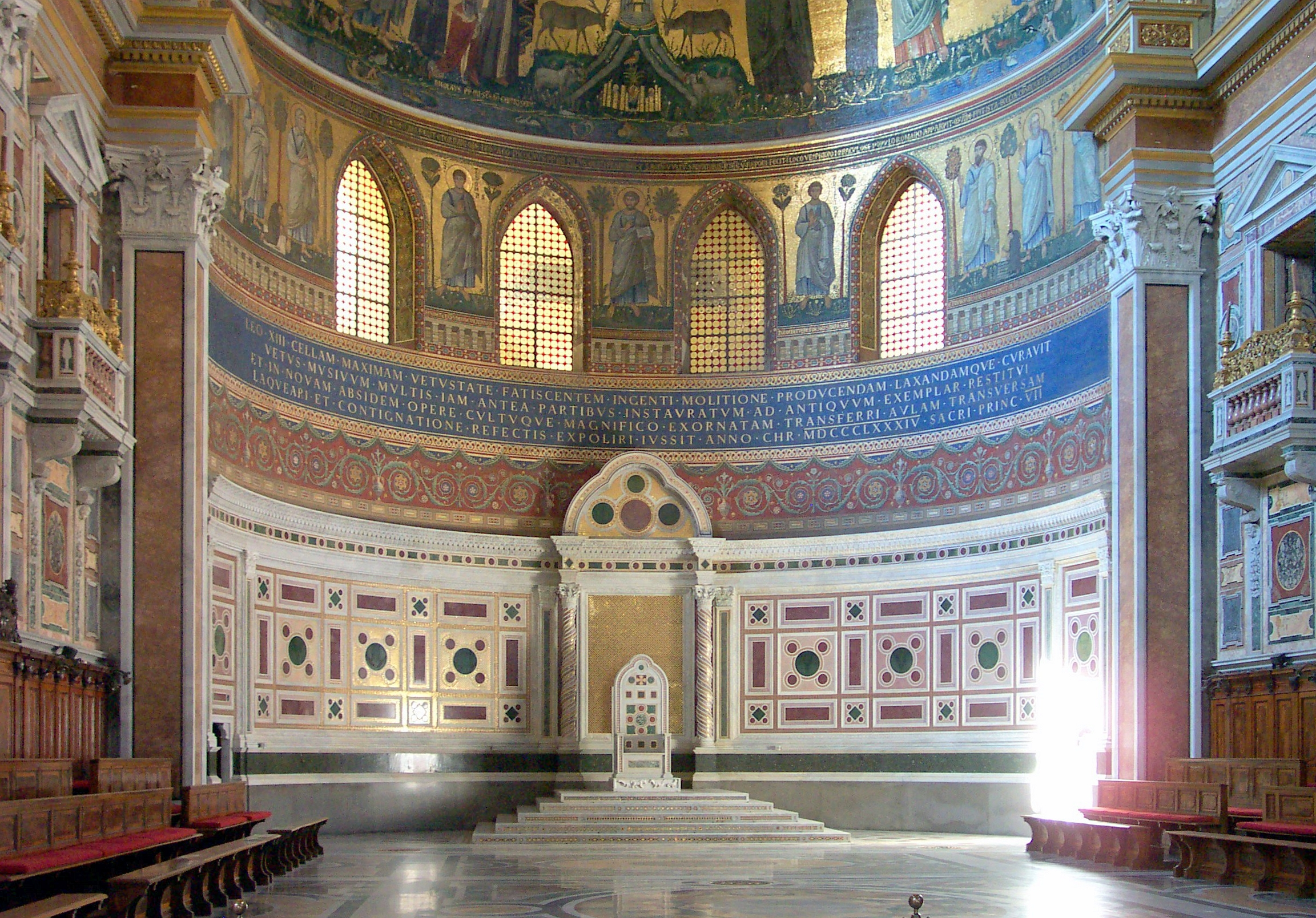 Pope's chair, Basilica di San Giovanni in Laterano, Roma, Italy. The text above the chair reads the following: LEO•XIII•CELLAM•MAXIMAM•VETVSTATE•FATISCENTEUM•INCENTI•MOLITIONE•PRODVCENDAM•LAXANDAMQVE•CVRAVIT VETVS•MVSIVVM•IAM•ANTEA•PARTIBVS•INSTAVRATVM•AD•ANTIQVVM•EXEMPLAR•RESTIVI ET•IN•NOVAM•ABSIDEM•OPERE•CVLTVQVE•MAGNIFICO•EXORNATAM•TRANSFERRI•AVLAM•TRANSVEERSAM LAQVEAPI•ET•CONTIGNATIONE•REFECTIS•EXPOLIRI•IVSSIT•ANNO•CHR•MDCCCLXXXIV•SACRI•PRINC•VII